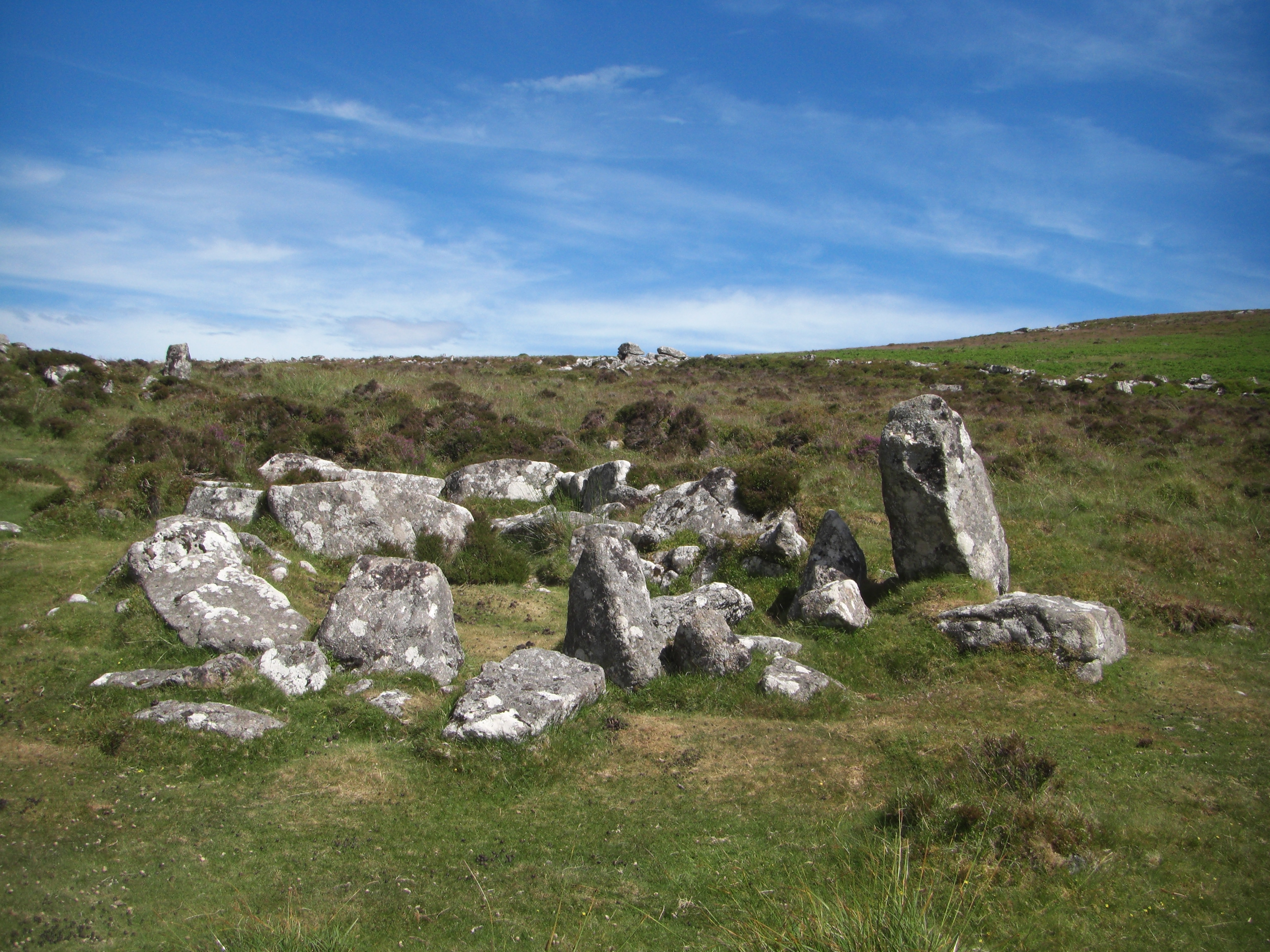 A prehistoric hut at Grimspound.